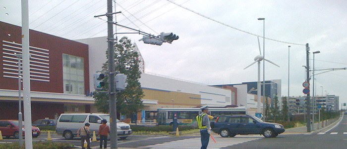 "LaLaport IWATA", Shopping Mall in Iwata, Shizuoka